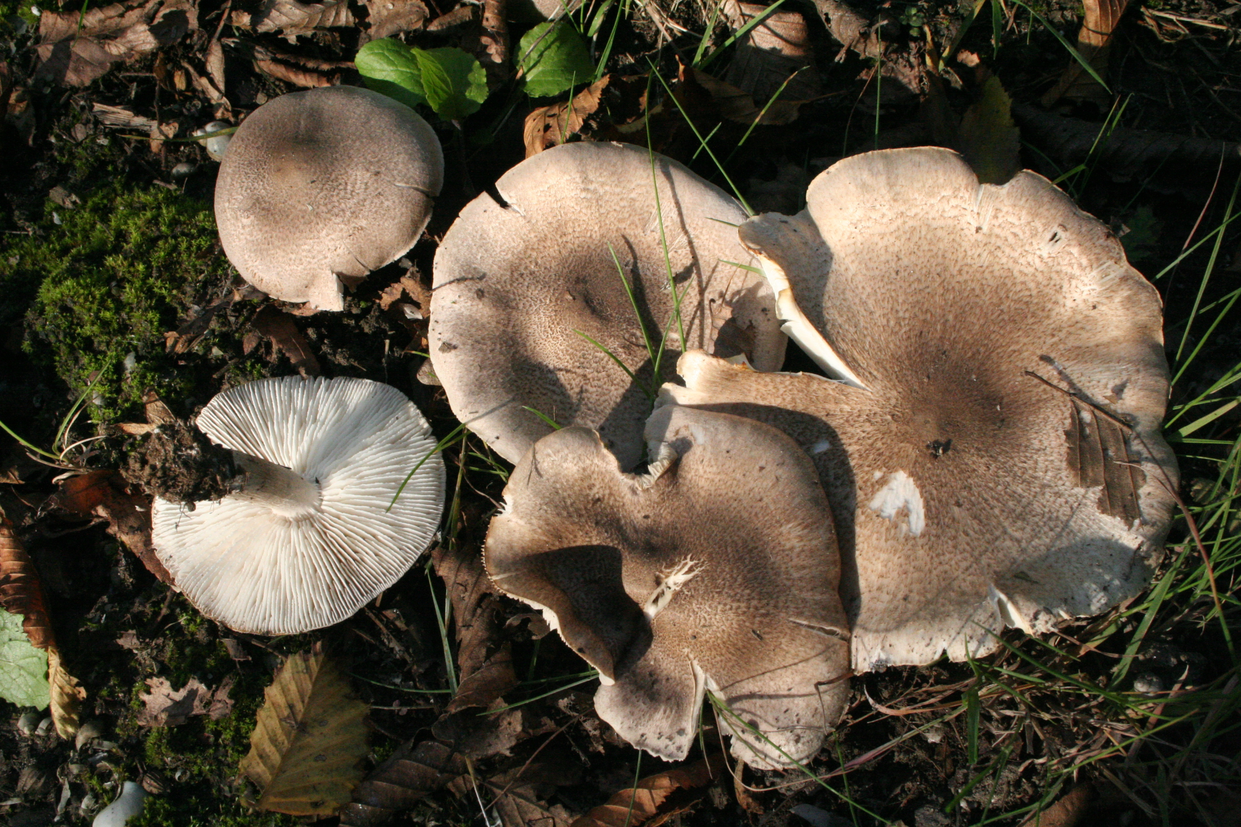 Tricholoma scalpturatum in a park near Paris, France.